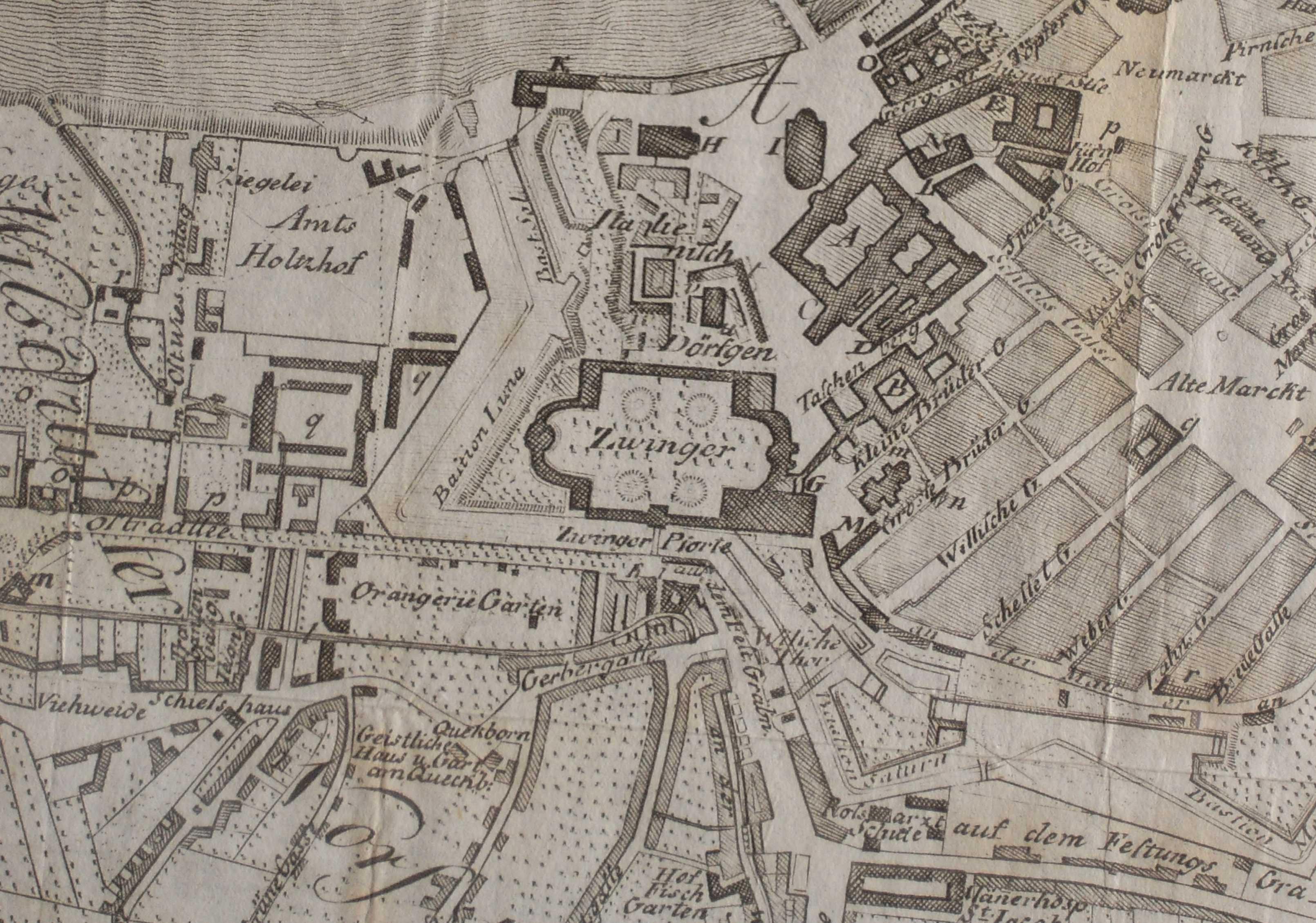 city map of Dresden (part of plan with Zwinger), J. Georg Lehmann, delineated 1801, improved 1804, printed 1809